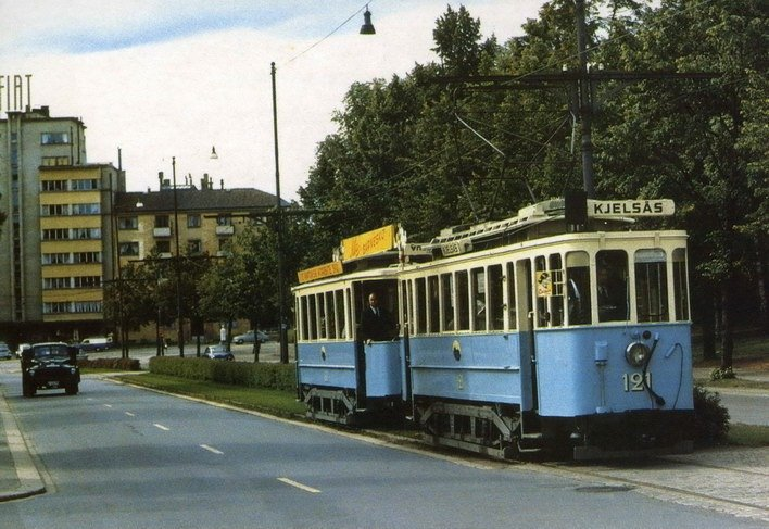 Municipal HaWa tram in Kirkeveien on the Frogner Line of the Oslo Tramway